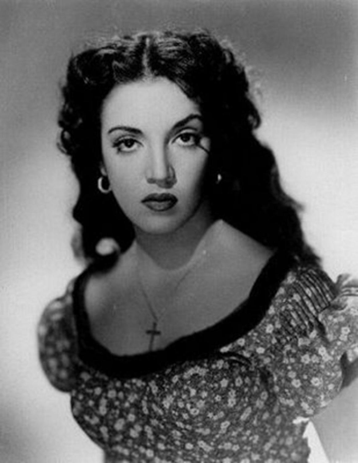 Katy Jurado in a promotional picture of the film San Antone (1953)